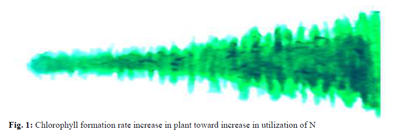 The effects of nitrogen on chlorophyll